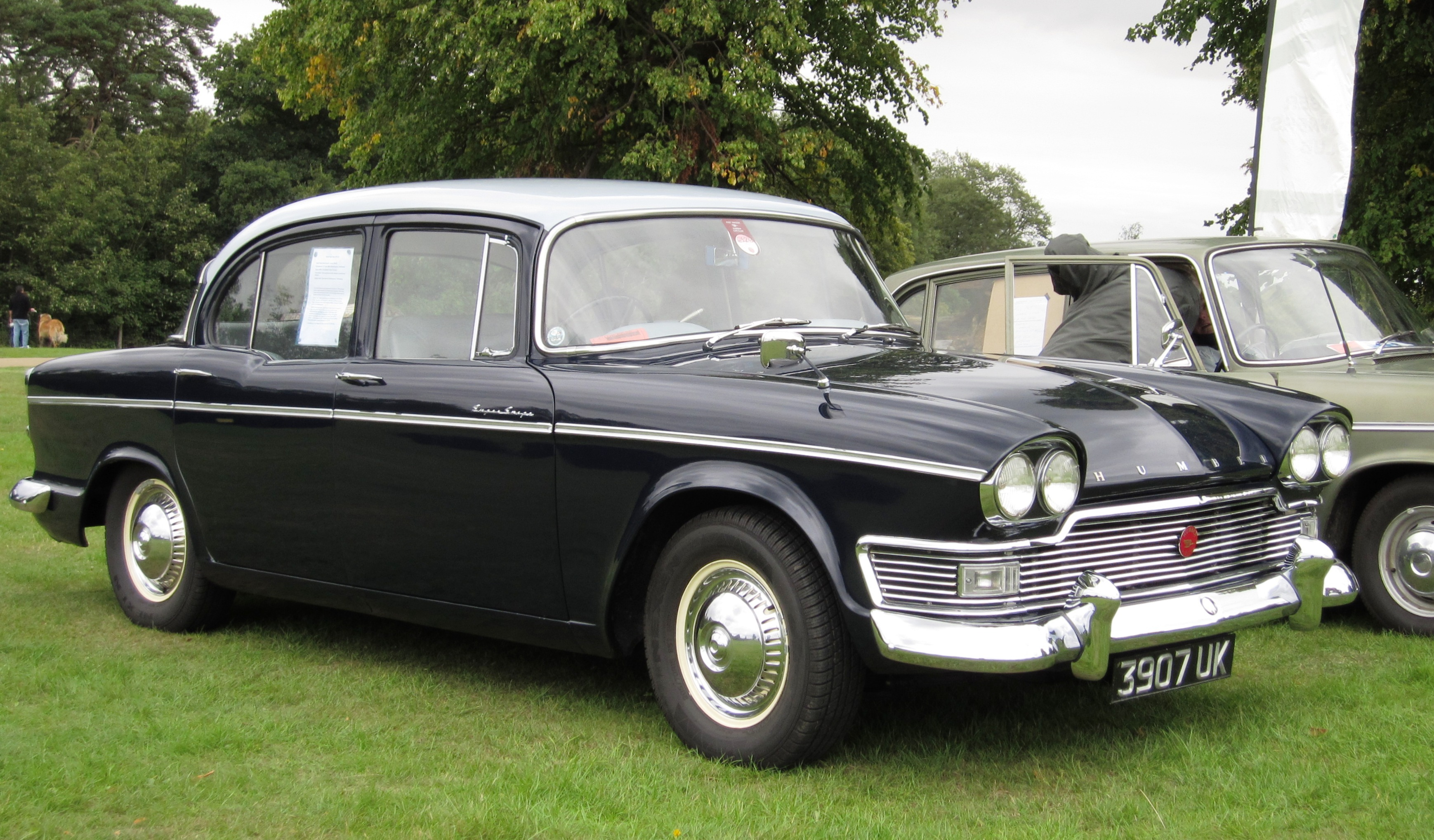 Humber Super Snipe Series 3